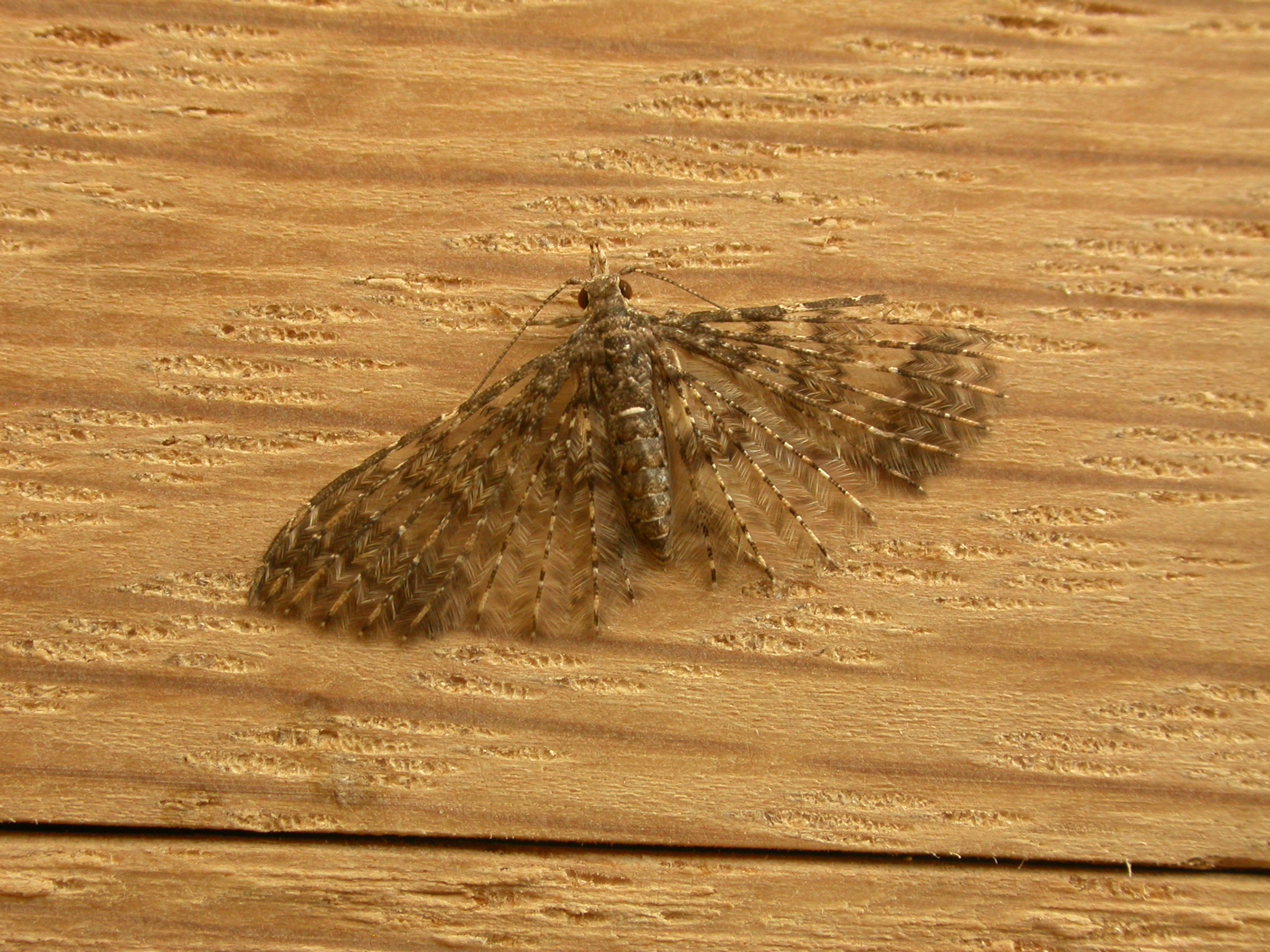 Alucita phricodes Meyrick, 1886, to MV light, Aranda, ACT, 27 September 2008